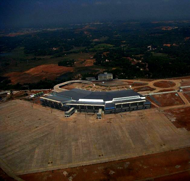 Mangalore airport new terminal aerial view